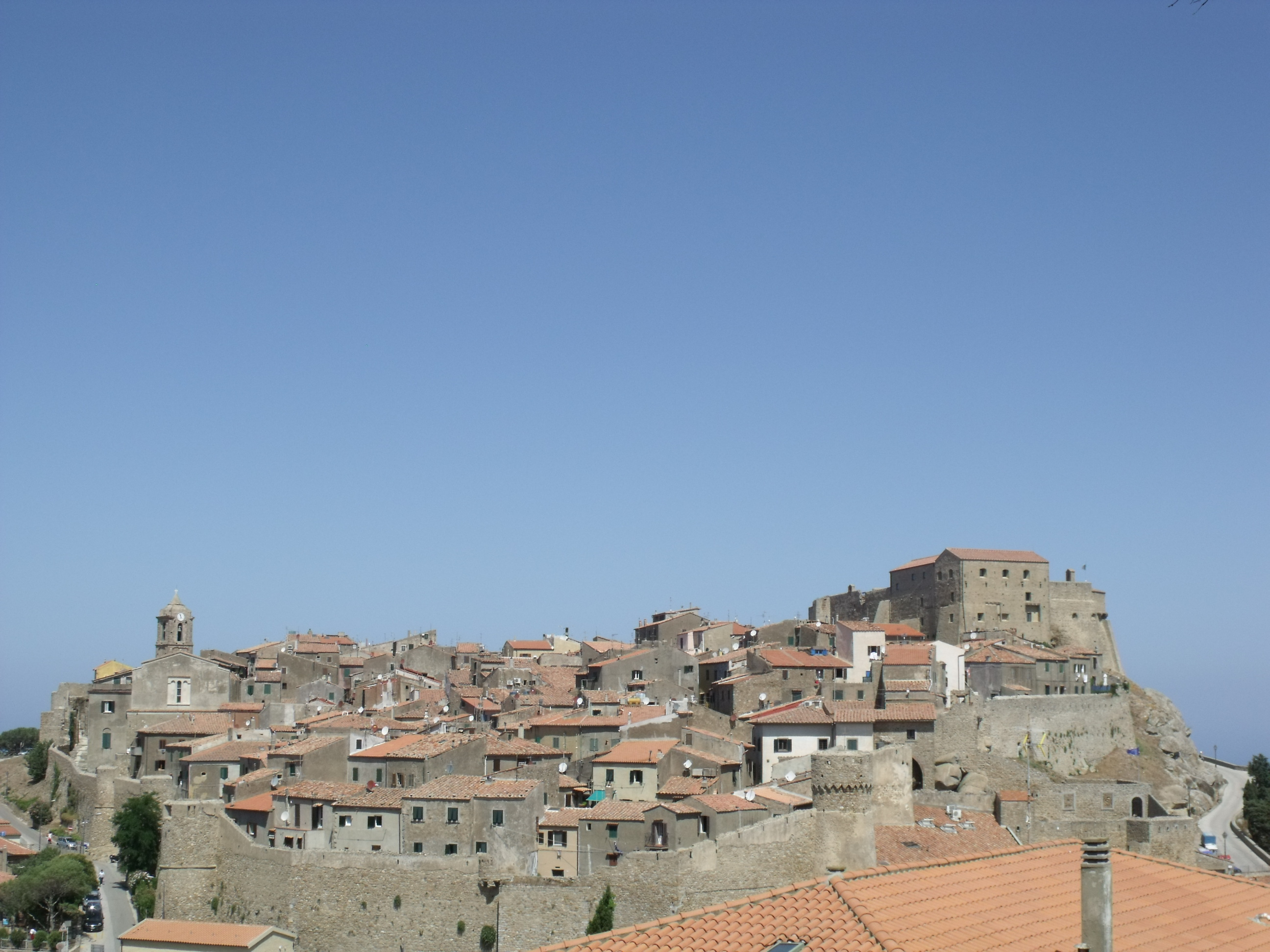 Panorama of Giglio Castello, Isola del Giglio, Province of Grosseto, Tuscany, Italy